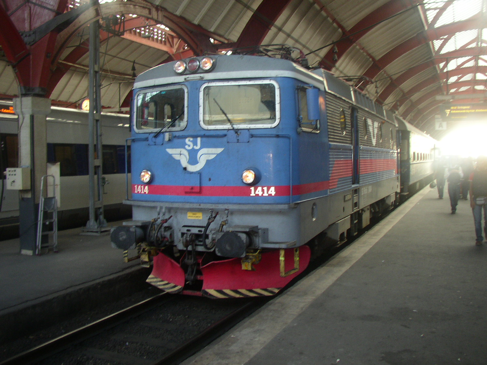 Locmotive-1414 from the SJ operating railway of Sweden, seen here in Malmö.